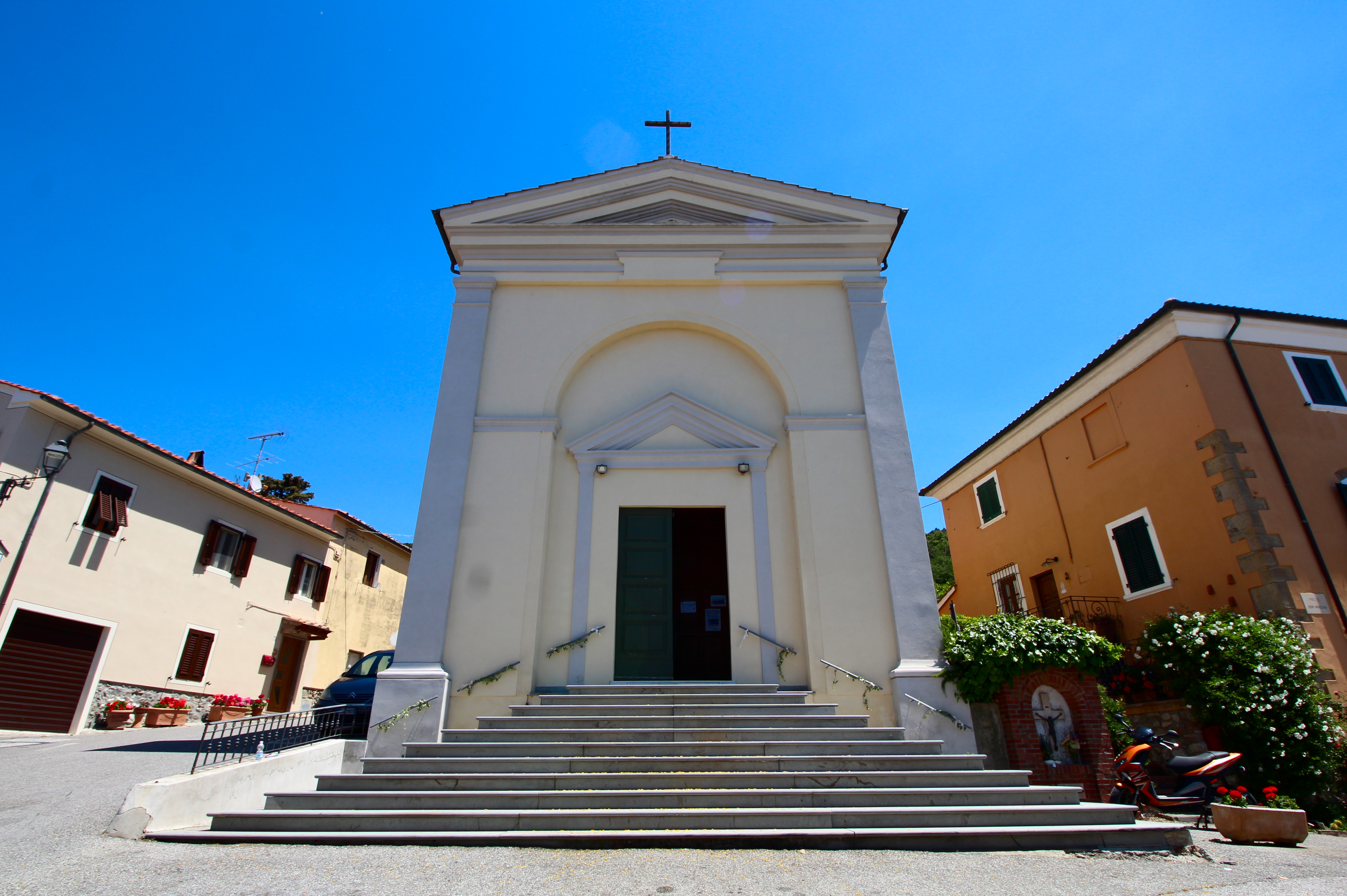 Church San Giovanni Decollato, Castellina Marittima, Province of Pisa, Tuscany, Italy